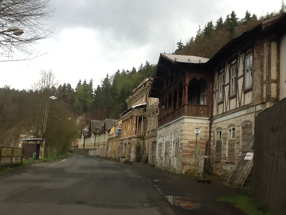 Lázně Kyselka 2014 2